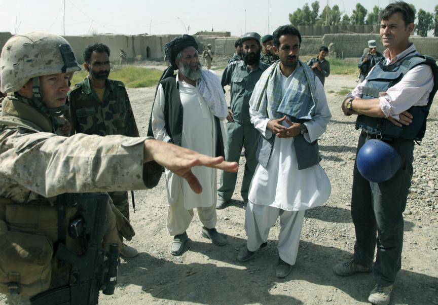 From left, U.S. Marine Corps Lt. Col. William McCollough, commander, 1st Battalion, 5th Marine Regiment; Afghan National Army Capt. Saki Dad; Abdul Manaf, governor of the Nawa District; Haji Muhammed Nafex Kahn, chief of the Nawa District Police; Shamsi, a security adviser for the Nawa District; and Ian Purves, a stabilization adviser with Provincial Reconstruction Team - Helmand, plan a community shura in the Nawa District Bazaar, Helmand Province, Afghanistan, July 22, 2009. (U.S. Marine Corps photo by Staff Sgt. William Greeson/Released)